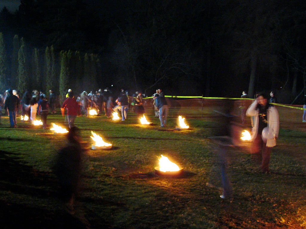 West_Vancouver,_Chaharshanbe_Suri